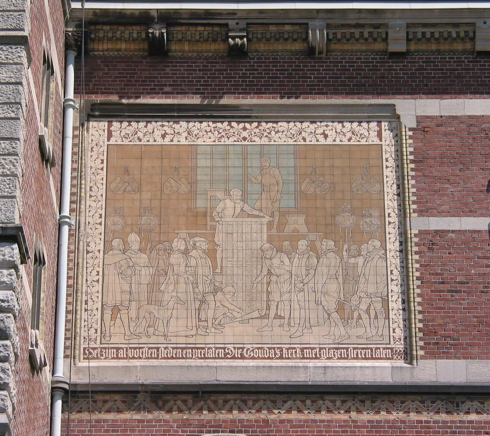 Tile picture 'It are princes cities and prelates that adorn Gouda's church with glasses 1555-1603'.